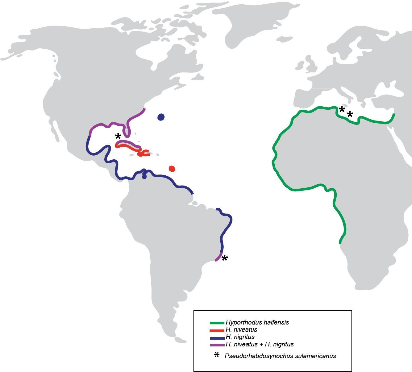 Figure 7 of Paper. Geographical distribution of three species of Hyporthodus in the Atlantic Ocean and Mediterranean Sea, and localities where specimens of Pseudorhabdosynochus sulamericanus were collected. Hyporthodus haifensis is only known from the Mediterranean Sea and African coasts of the Eastern Atlantic; Hyporthodus niveatus and Hyporthodus nigritus are American species. The distributions of the American and African species do not overlap, and are separated by the span of the Atlantic Ocean (Heemstra & Randall, 1993).